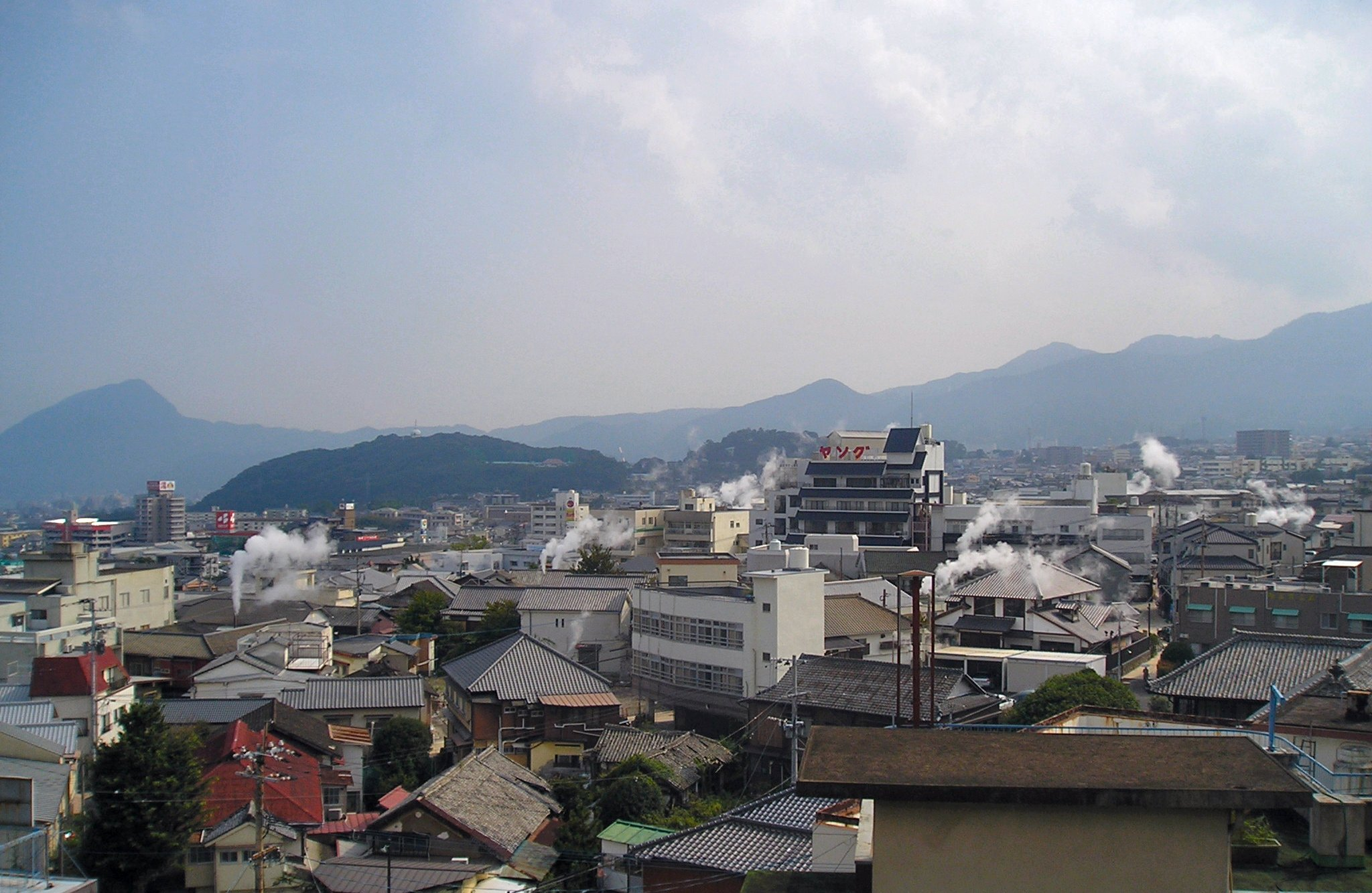 A view of Kannawa Hotsprings